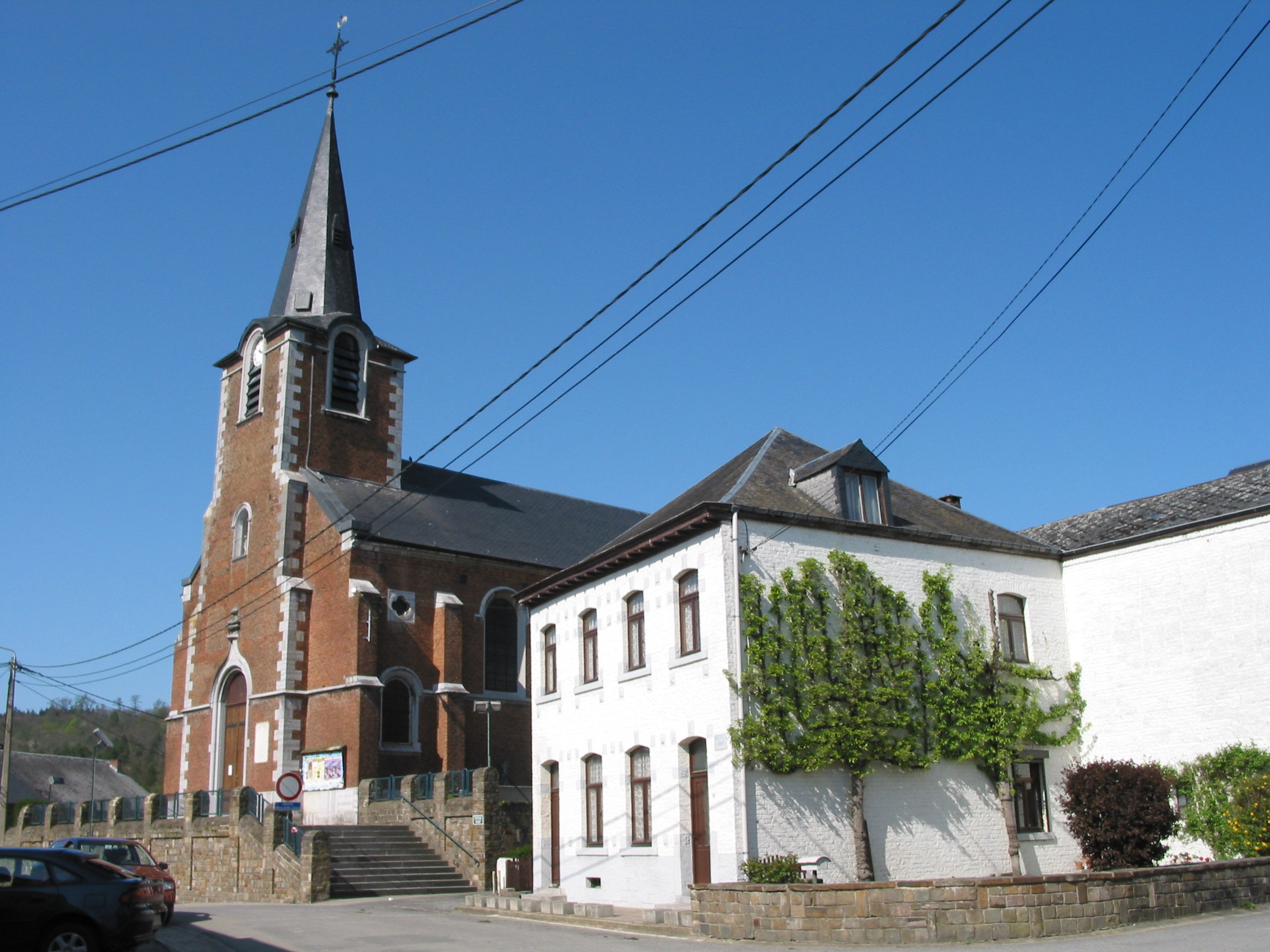 Houyet (Belgium), the Our Lady of the Assumption church (1851).